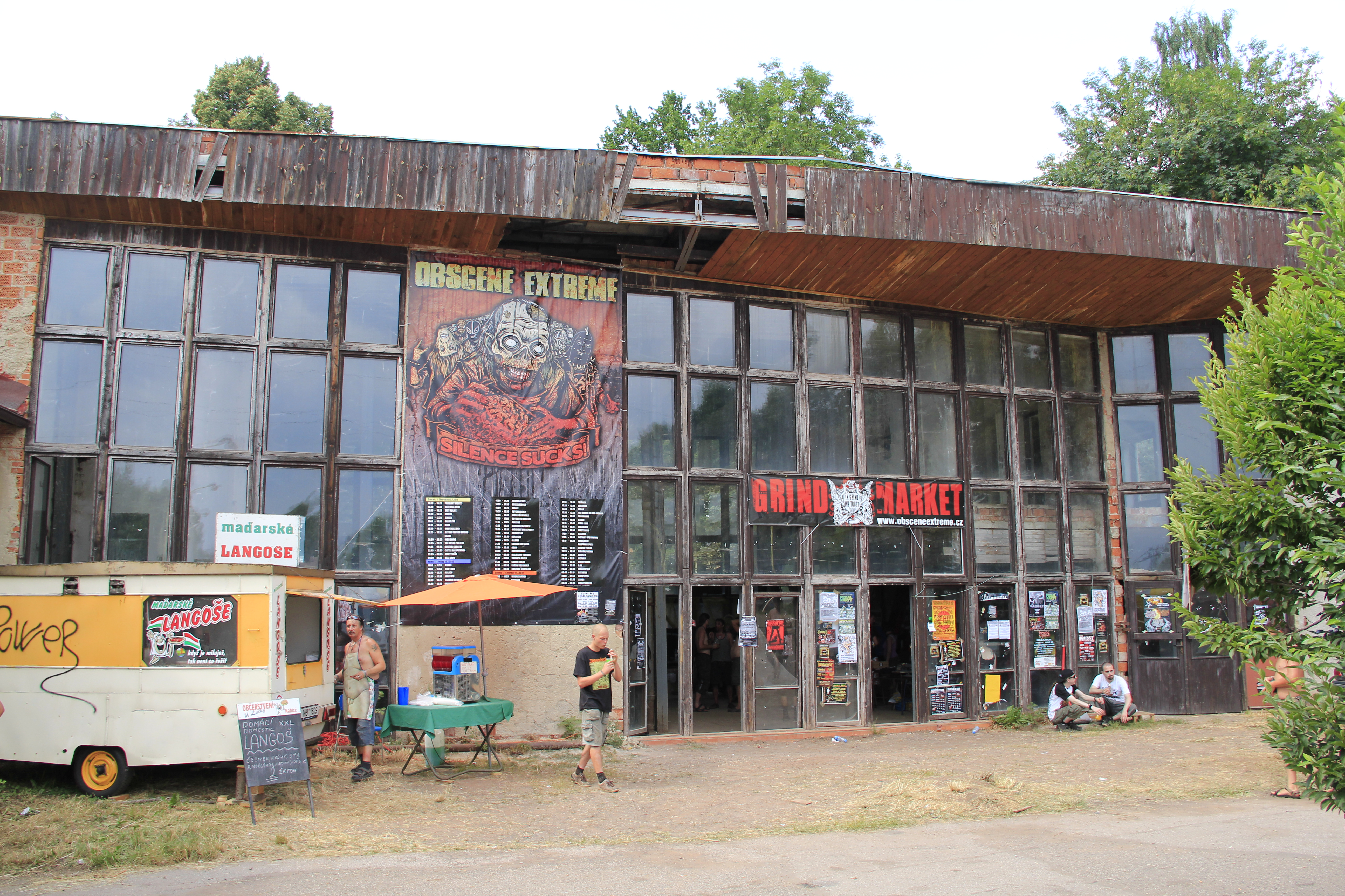 Grind Market at Obscene Extreme Festival 2010